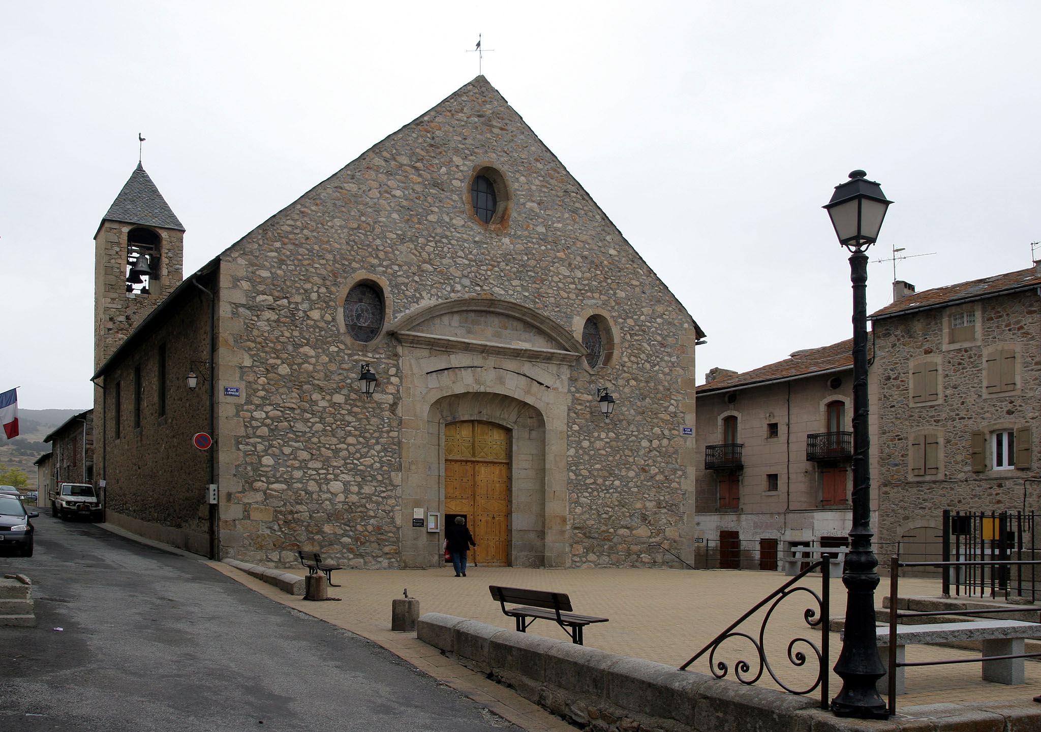 The church of Mont-Louis in October 2008